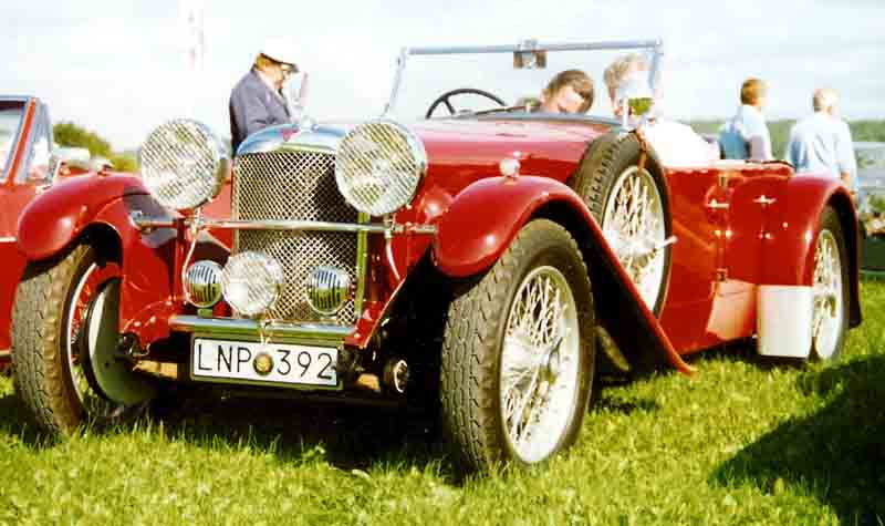 Alvis Speed 20 Tourer 1932